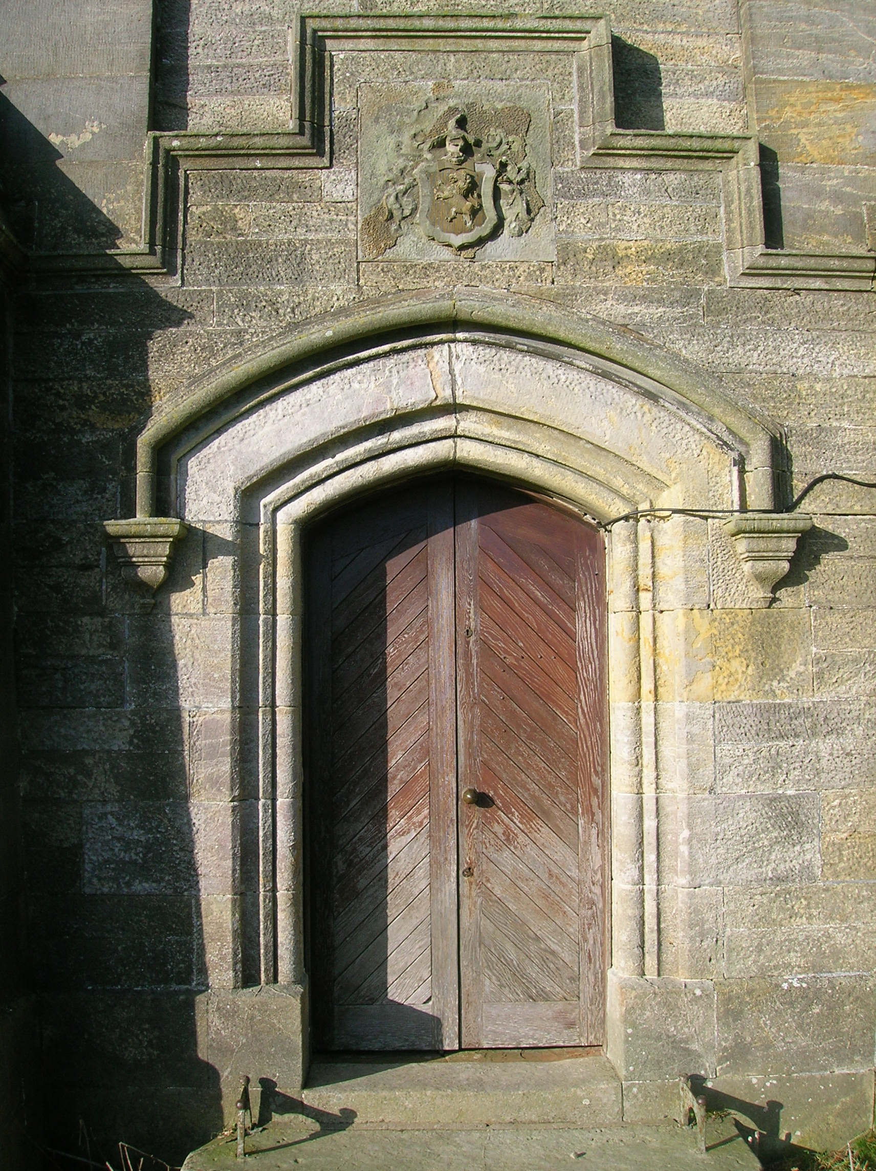 The entrance to the Wallace's Monument, Craigie, South Ayrshire, Scotland.